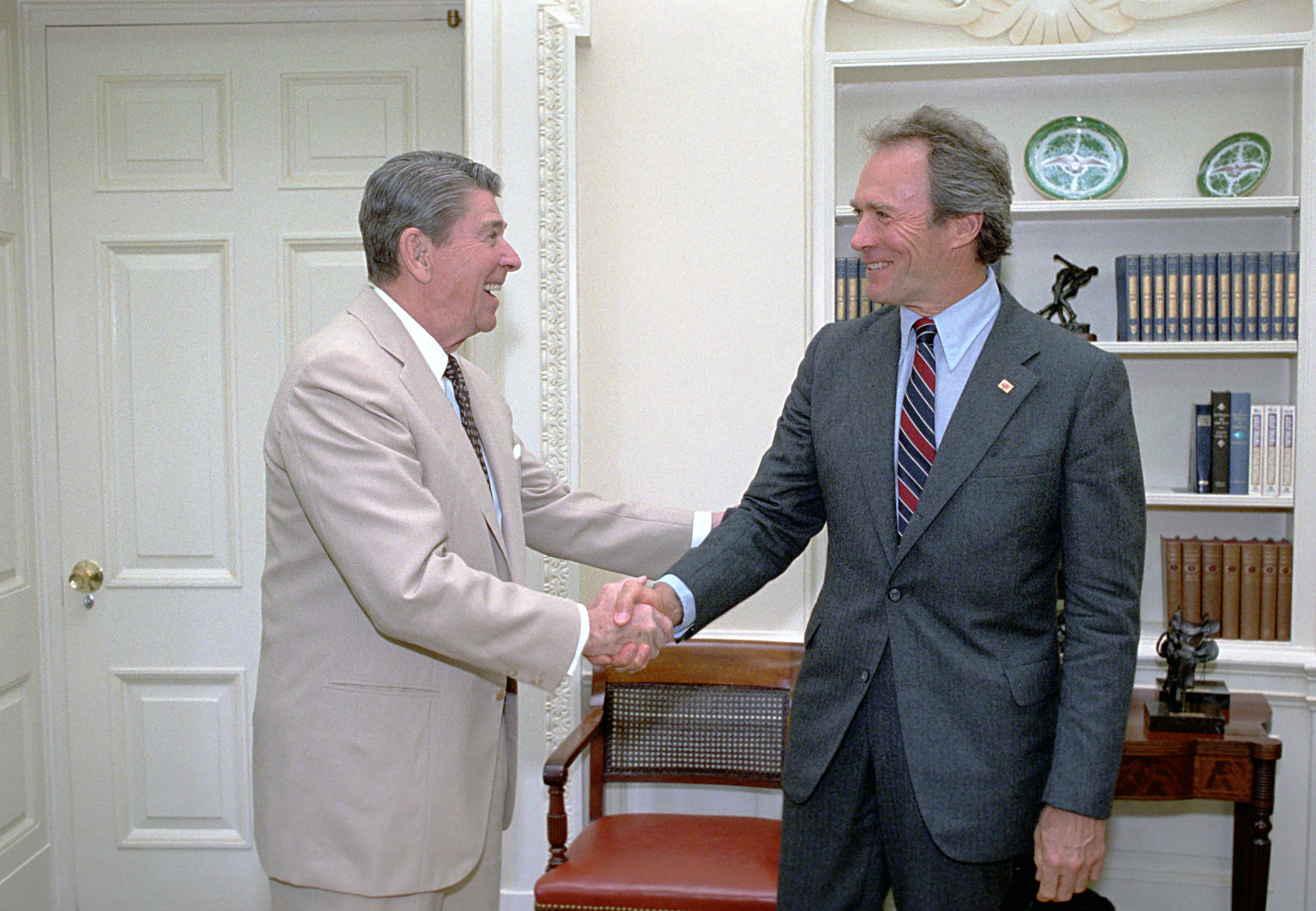 President Ronald Reagan Shaking Hands with Clint Eastwood Before The Take Pride in America Event in The Oval Office, 7/21/1987